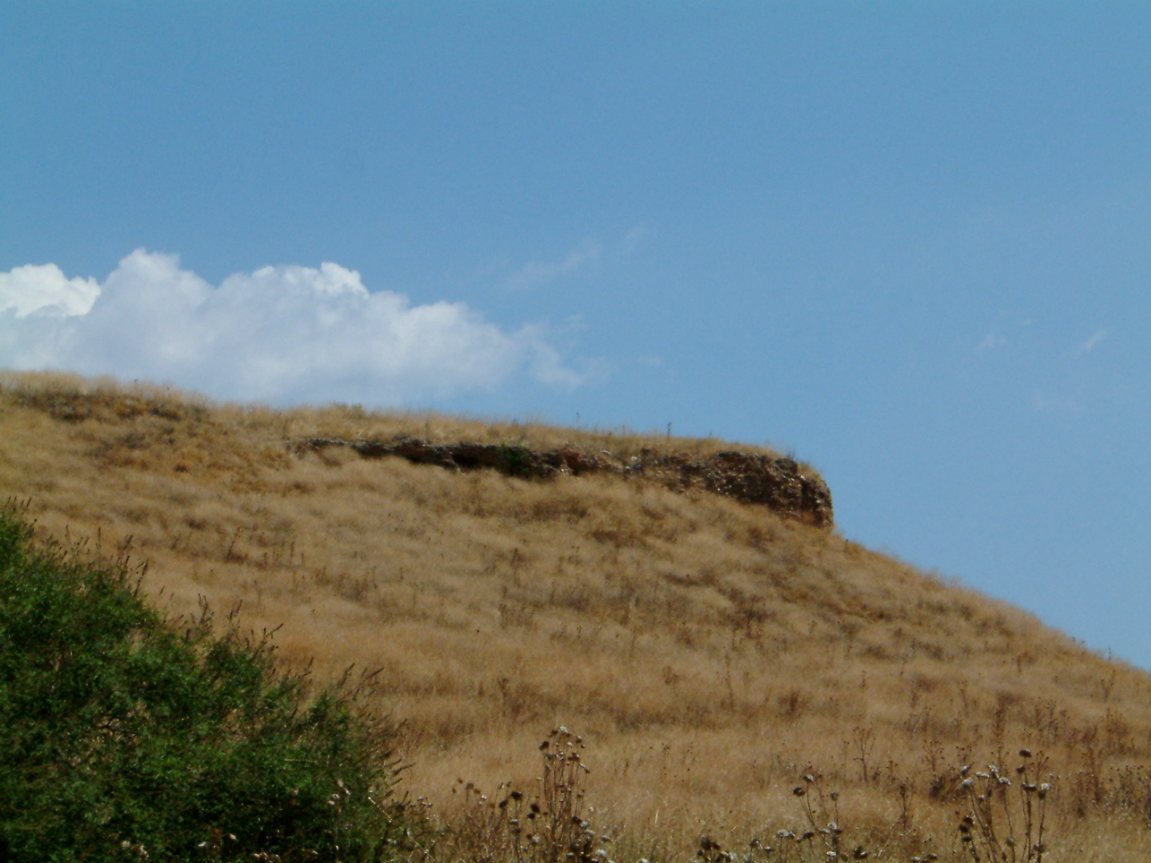 Remains of prehistoric settlement at Olynthos, Chalkidiki, Greece (southern hill of ancient town). View from Olyntheos river passing by.